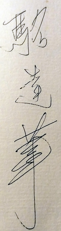 This is Ken Lok Tat Wah's signature.